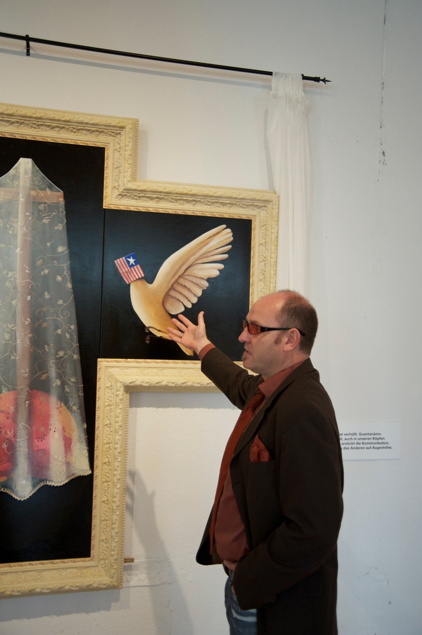 Pinselartist Ralf Metzenmacher, Exhibition "From Puma to Pan", in front of his painting "The Cloak of Silence" from 2009